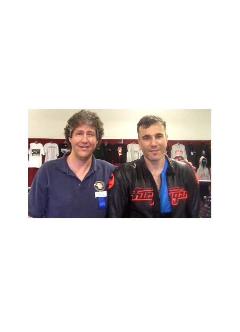 Author Mark Allen Baker with Academy Award winning actor Daniel Day-Lewis at the International Boxing Hall of Fame in Canastota, New York.